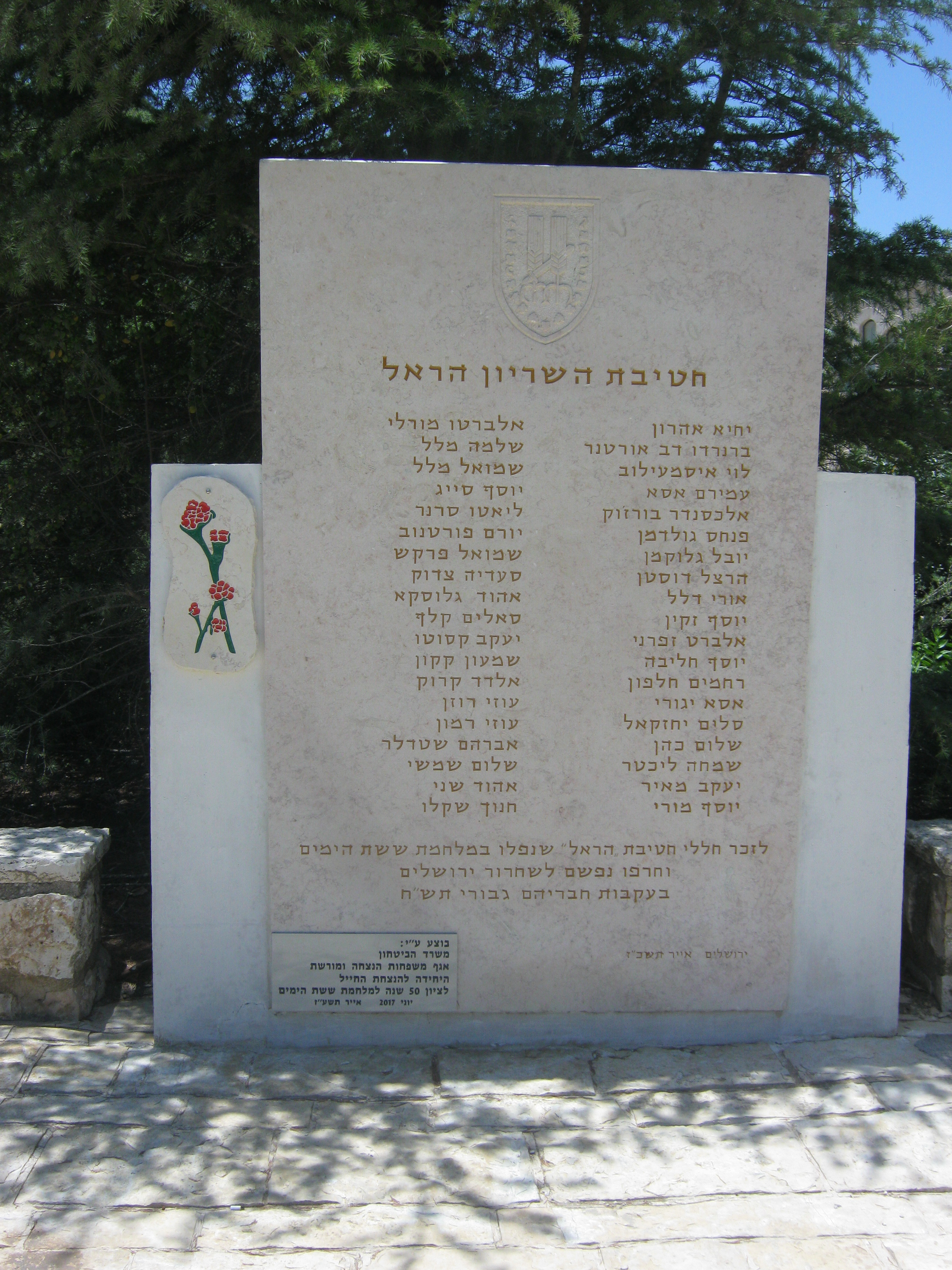 Harel Brigade Memorial at Giv'at HaMivtar